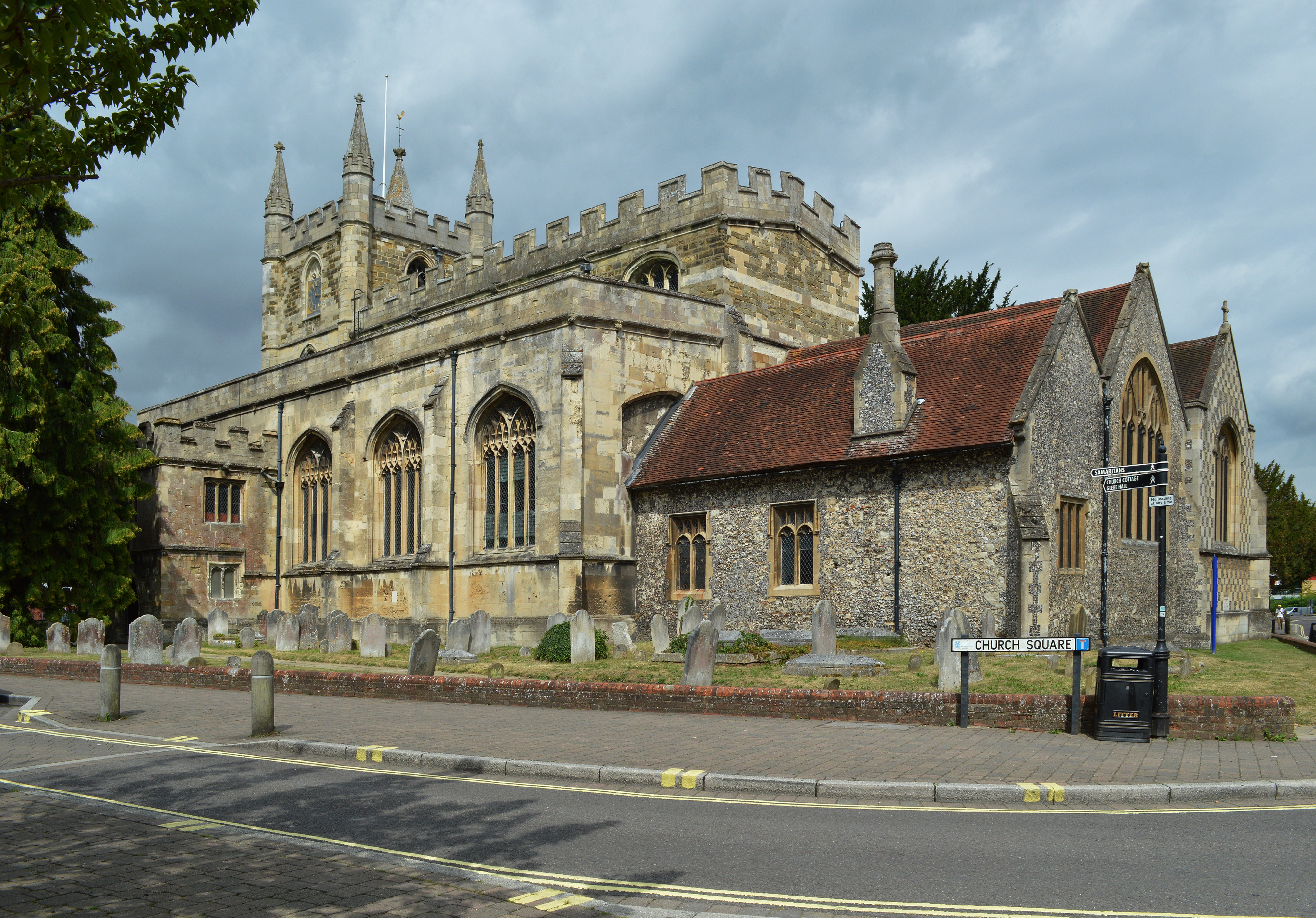 St Michael's Church, Basingstoke. Wikidata has entry Q17528227 with data related to this building.